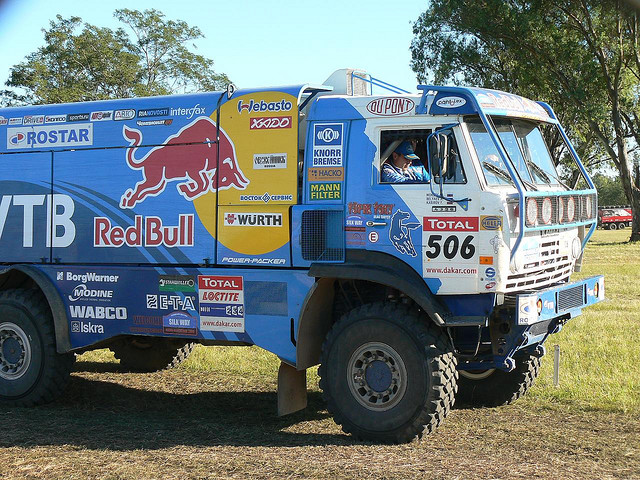 Kamaz 4326 truck of the #506 team on Dakar 2009: Kabirov, Belyaev, Mokeev Camera: Panasonic DMC-FZ7 License on Flickr (2011-01-11): CC-BY-2.0 Flickr tags: Trucks, Rally, Dakar, Argentina-Chile, 2009, Competencia, Campamento, Cordoba